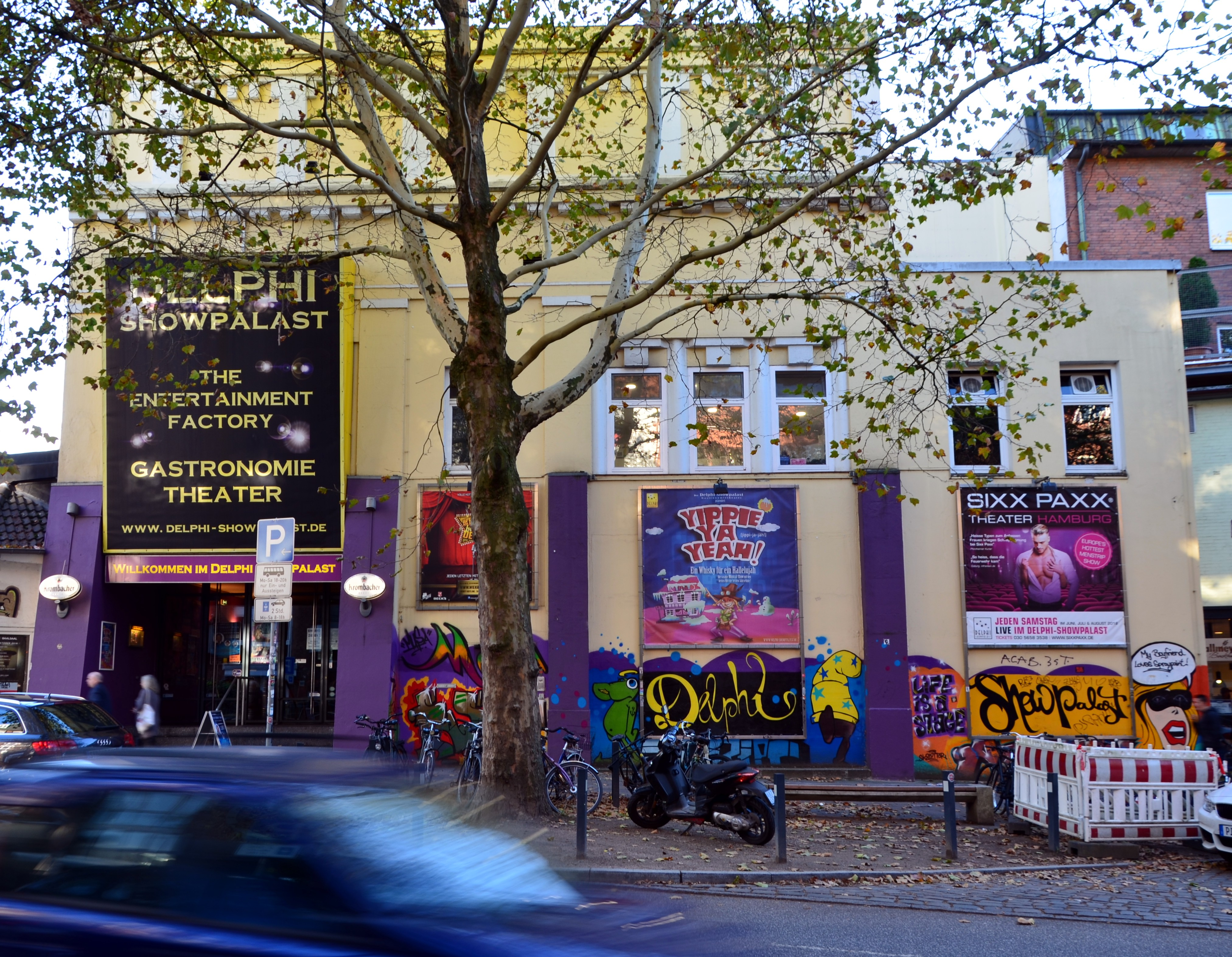 Delphi Showpalast Hamburg